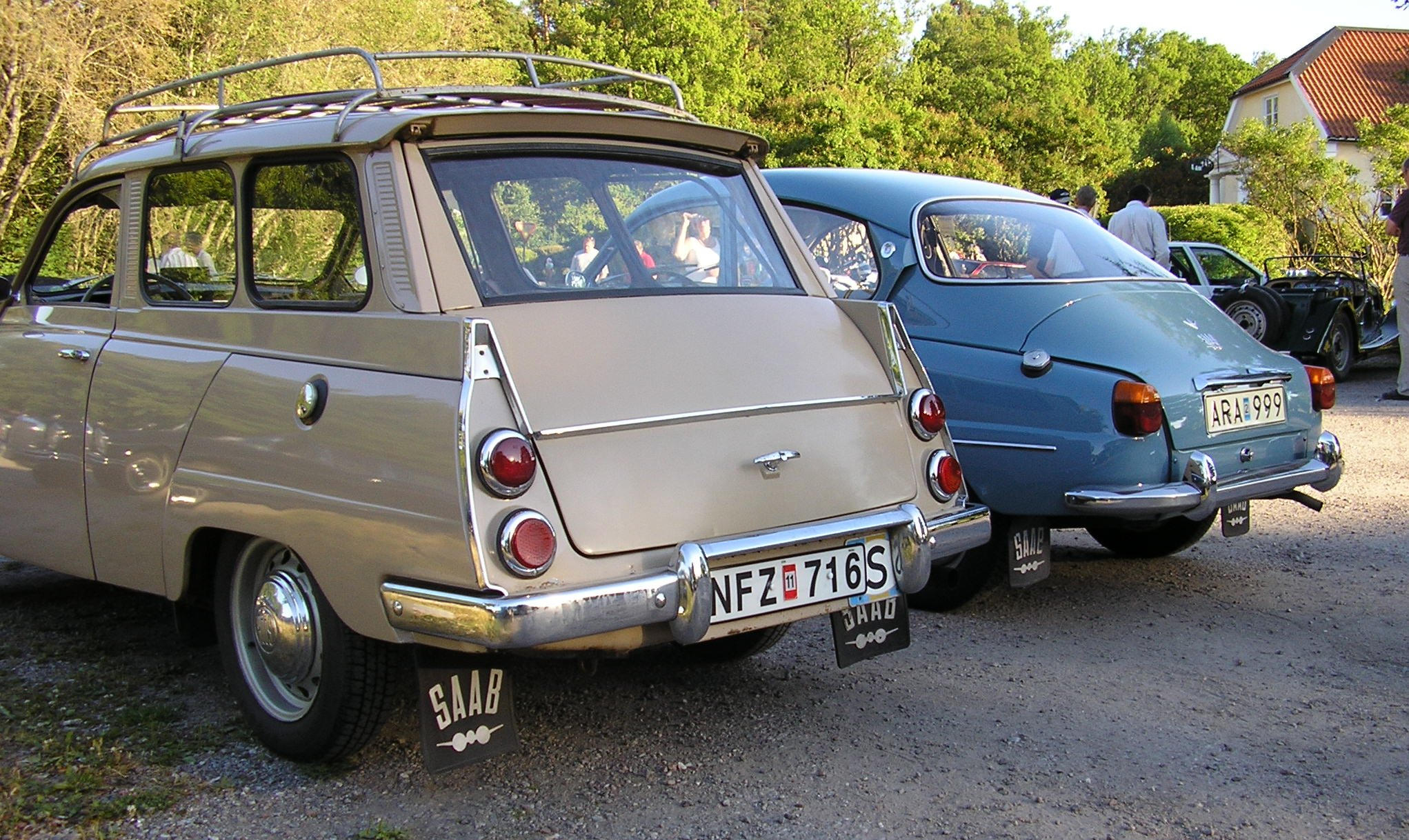 A 1962 SAAB 95B De Luxe (left) and a 1968 SAAB 96V4 (right). Photographed by myself at Brostugan, Stockholm, Sweden 2005.